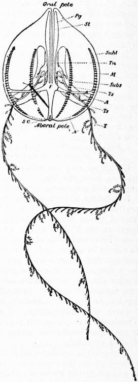 EB1911 Ctenophora Fig. 1